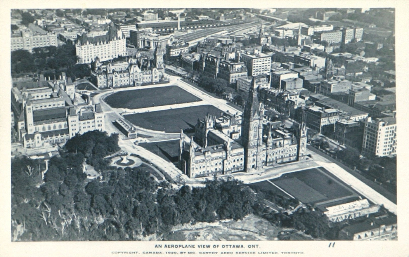 Aerial view of Ottawa, Canada.